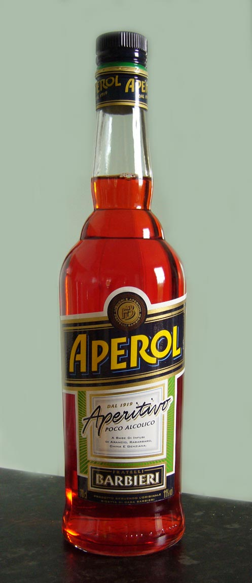 A photo of a bottle of Aperol